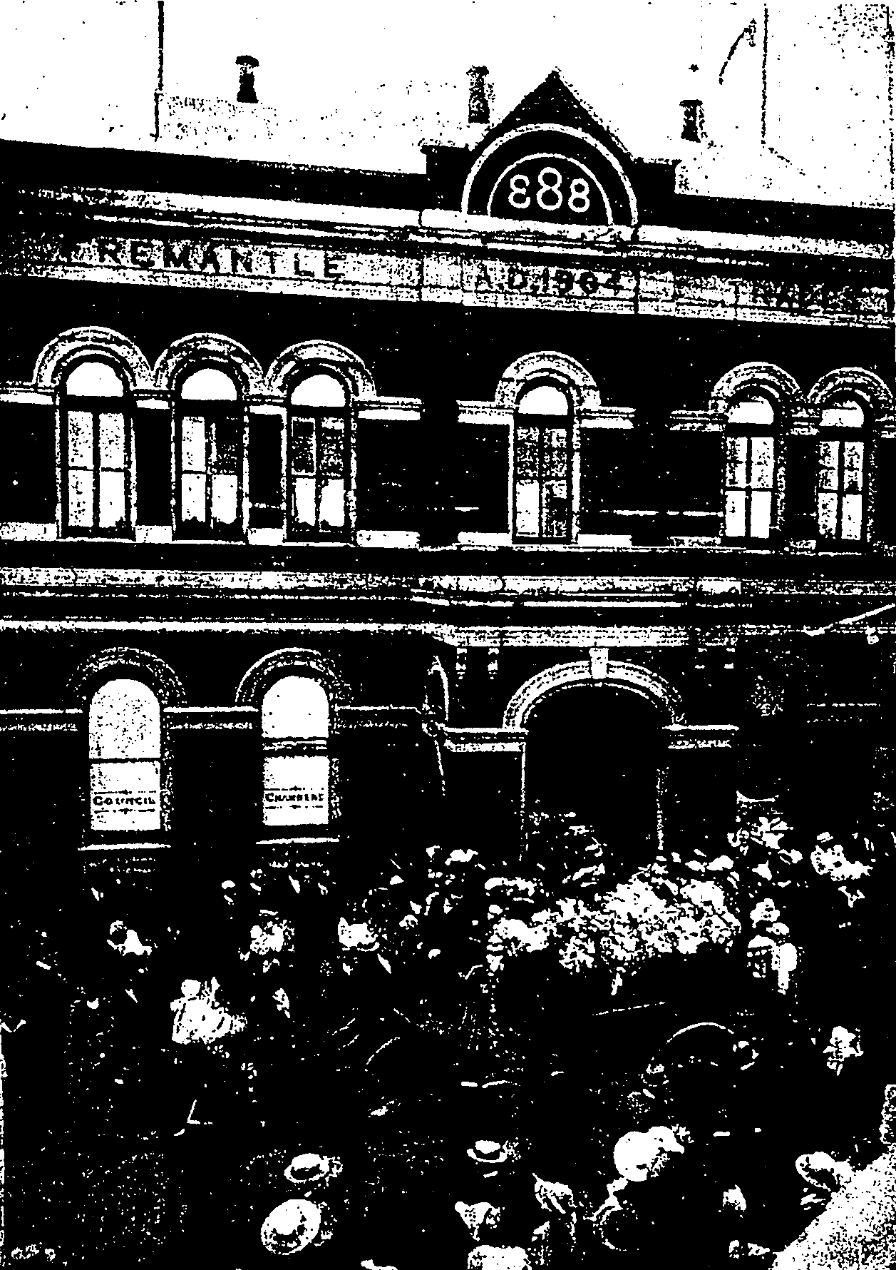 This is a figure from The Fremantle Wharf Crisis of 1919, a pamphlet published in 1920 by the Australian Labor Federation.